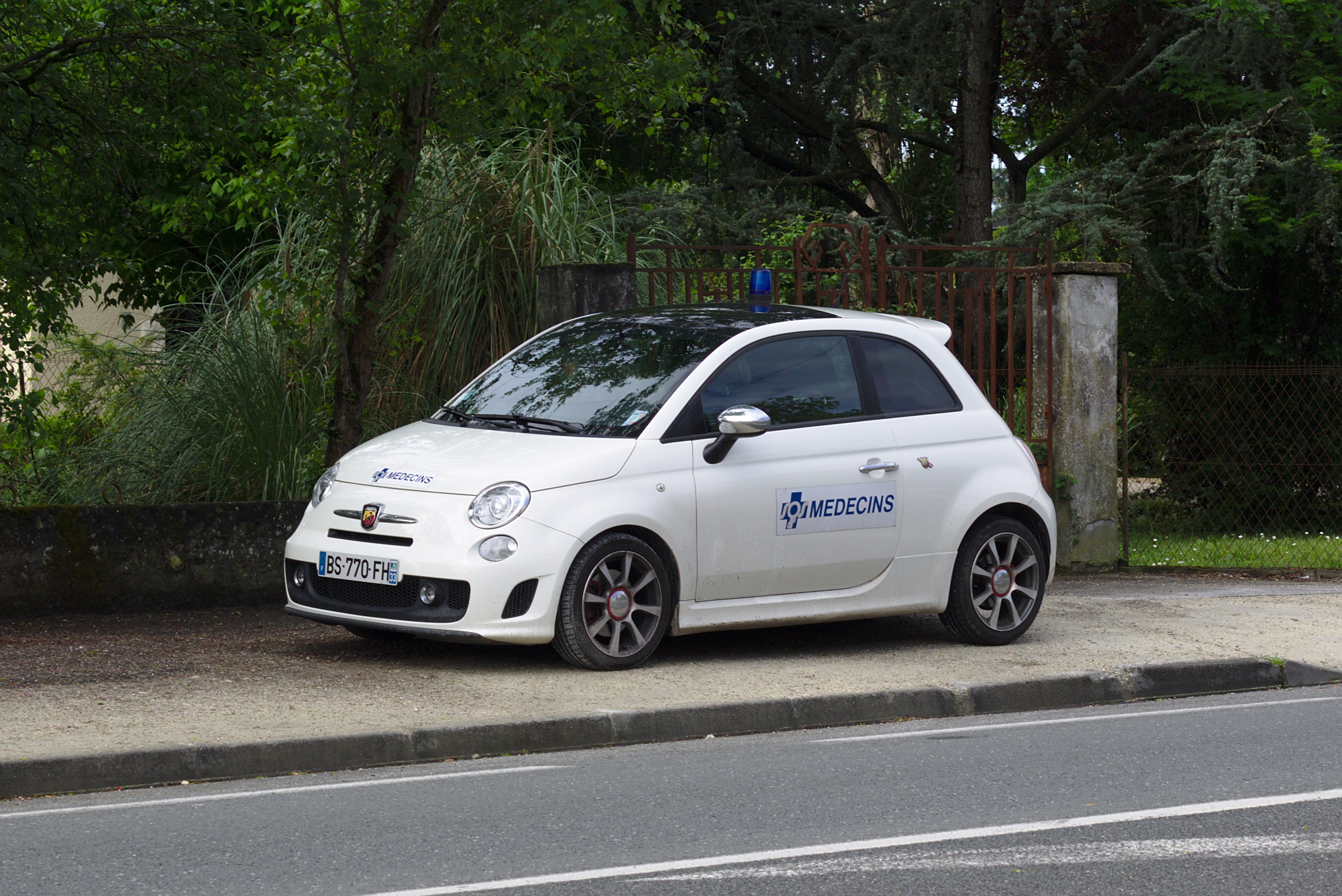 Fiat 500 SOS Medecins